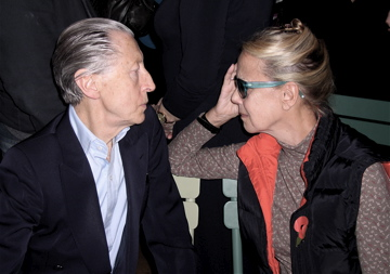 Actors Murray Melvin and Georgina Hale are seen at the Peter Brook Empty Space Awards 2007. The photograph was taken at the Young Vic Theatre on 31 October 2007